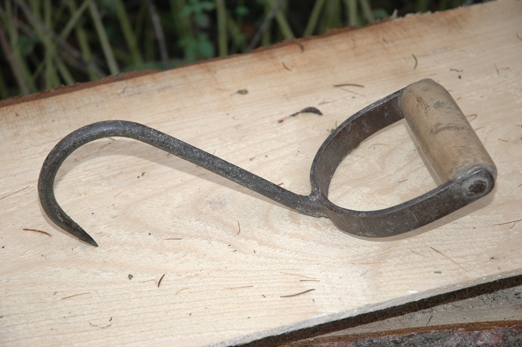 Packhaken (Forstwirtschaftliches Werkzeug)